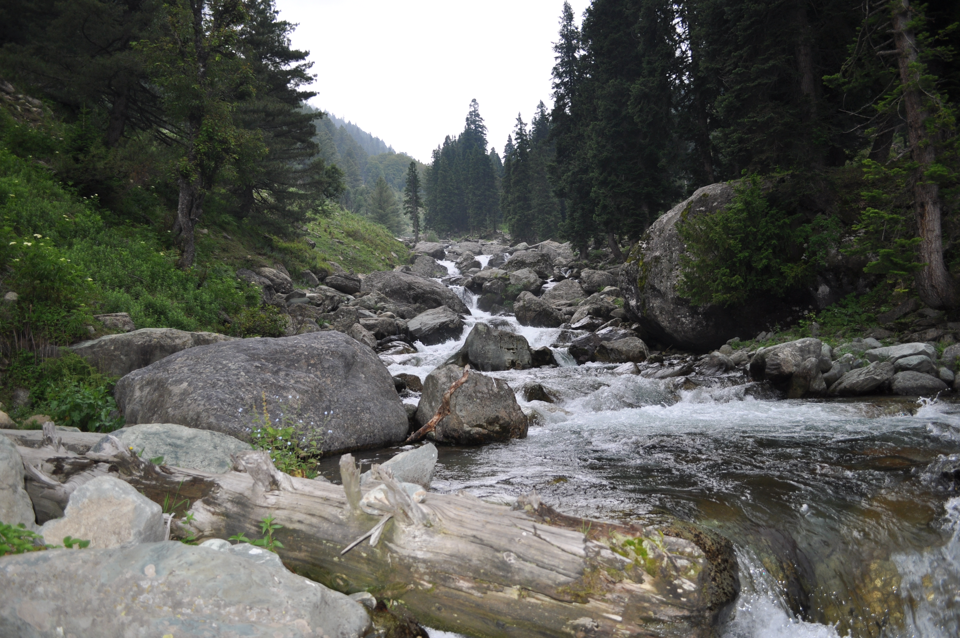 Bandipora Arin Stream, Famous for Trout fishing in Jummu and Kashmir